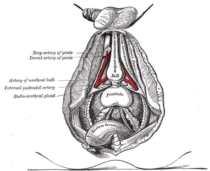 Internal male anatomy, from the coccyx to the base of the scrotum, drawn from life (cadaver dissection).